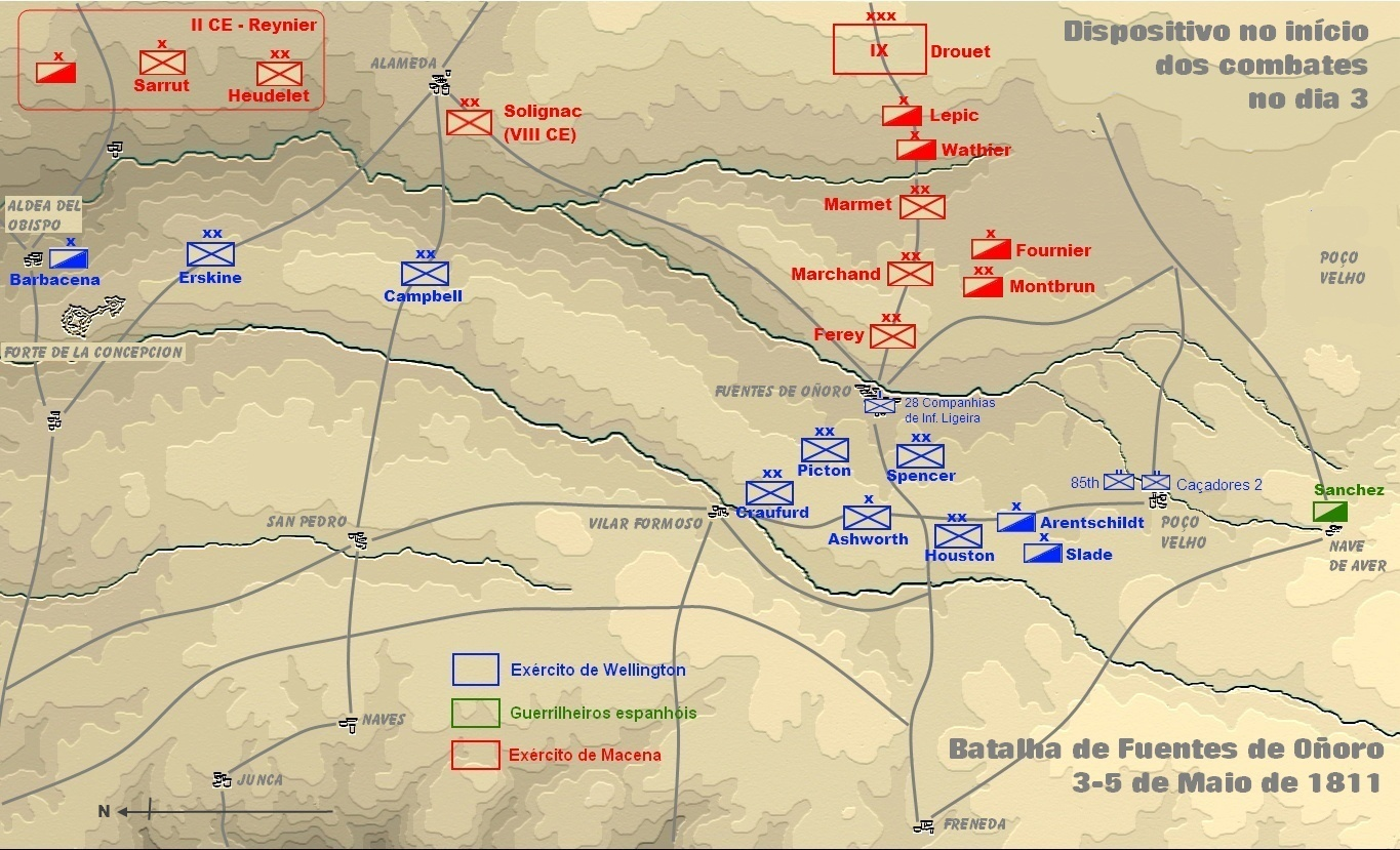 Map depicting the device of Anglo-French and luso on May 3 at the Battle of Fuentes de Onoro.